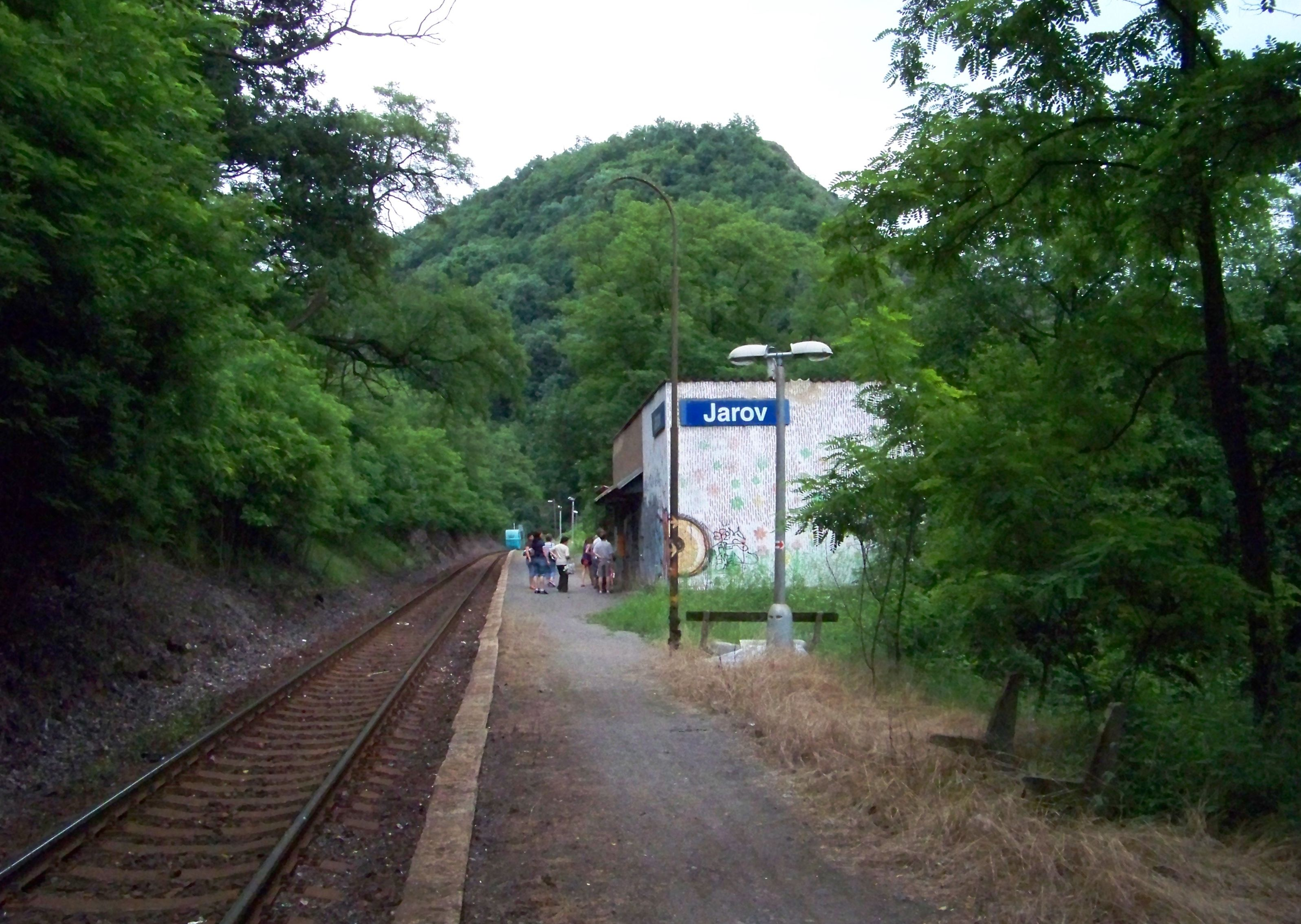 Ohrobec, Prague-West District, Central Bohemian Region, the Czech Republic. Train stop "Jarov" and Zvolská Homole hill.